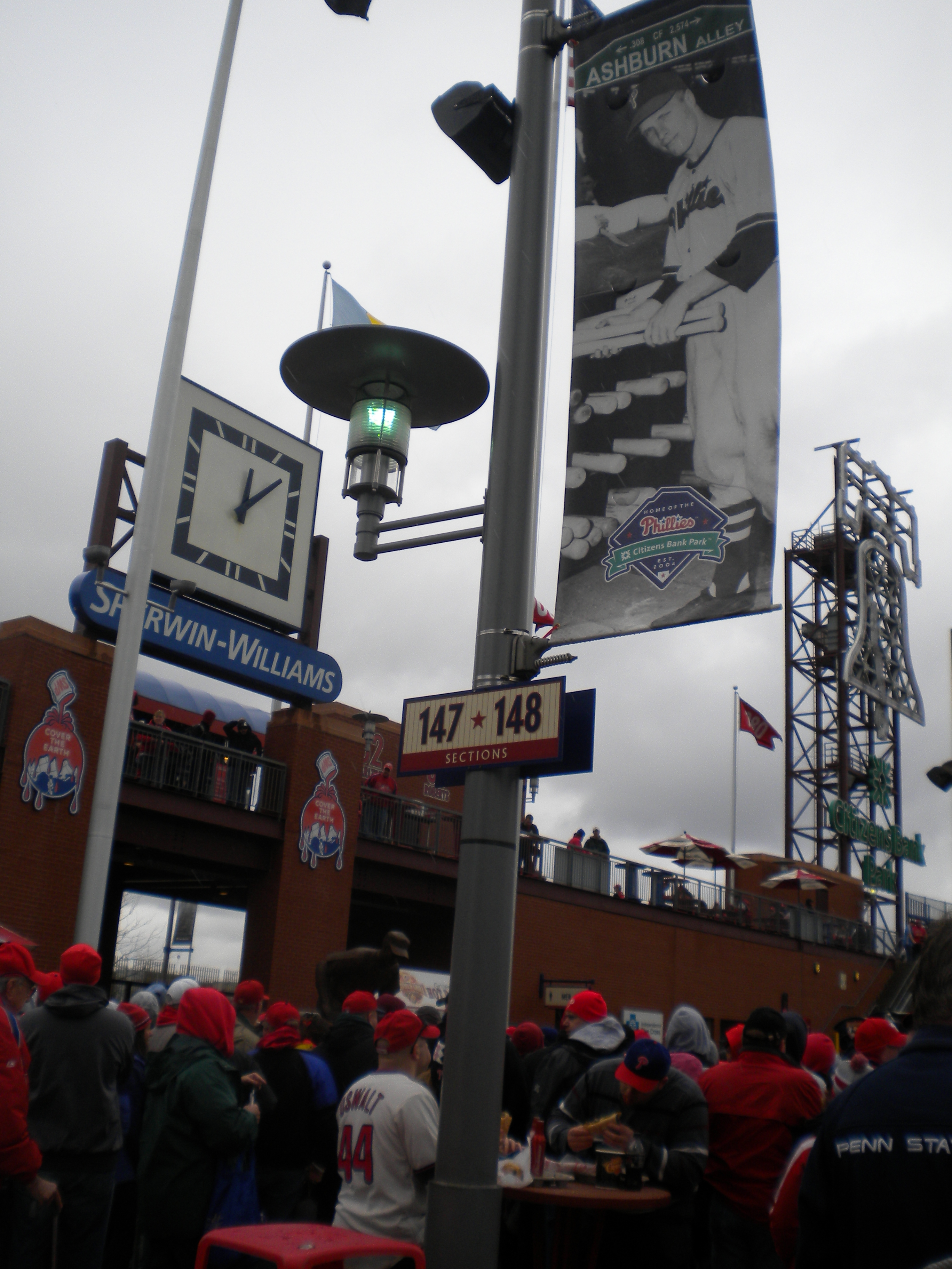 Ashburn